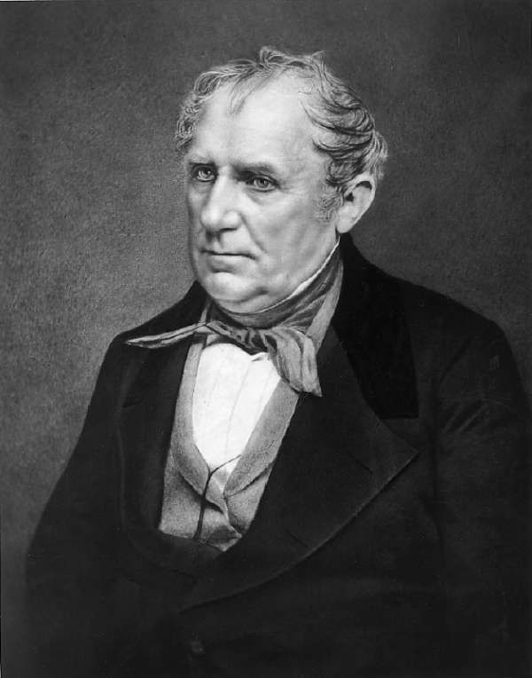 Image based on a photograph of James Fenimore Cooper; see also File:James Fenimore Cooper by Brady 1850.jpg